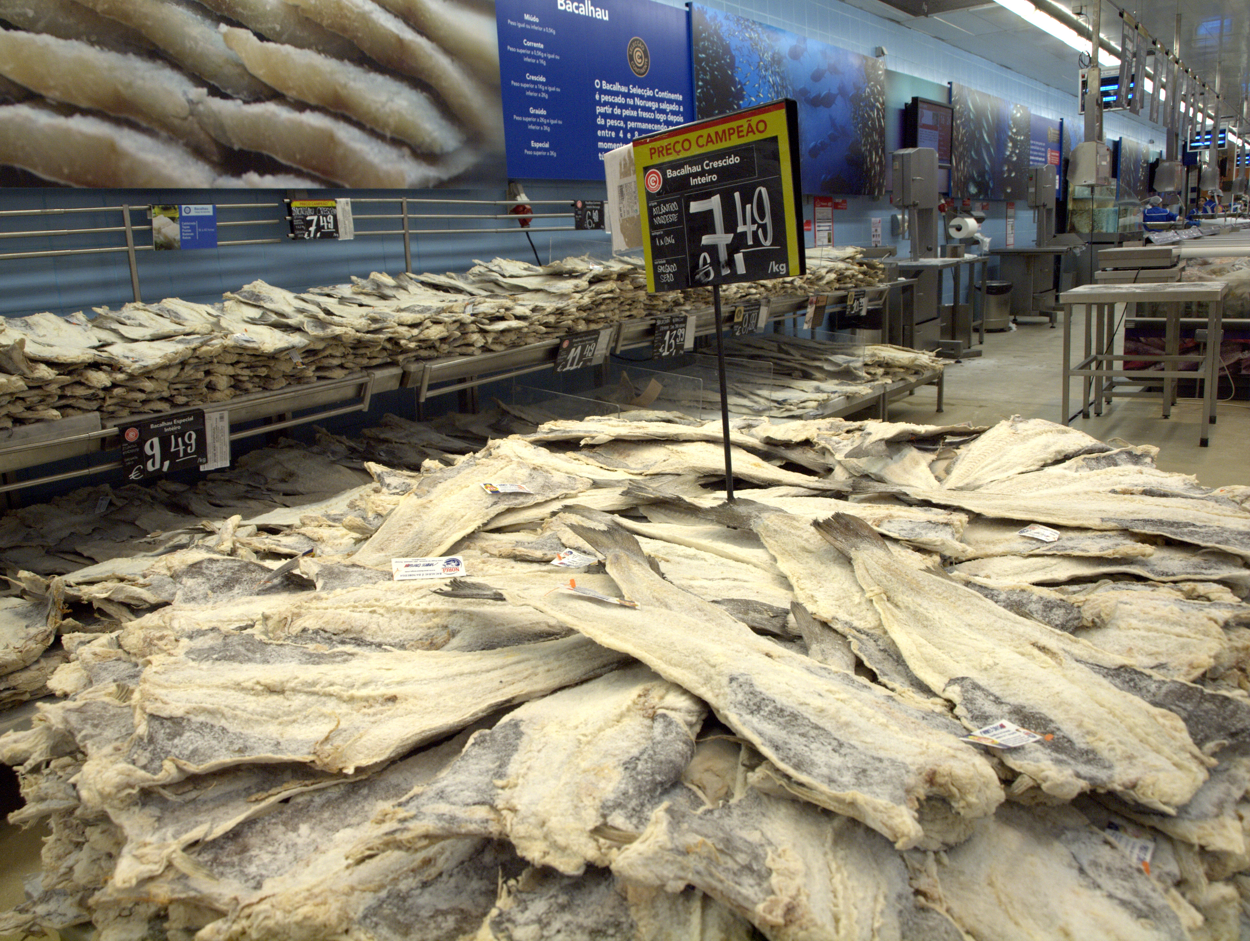 Dried an Salted Atlantic Codfish in a Lisbon supermarket